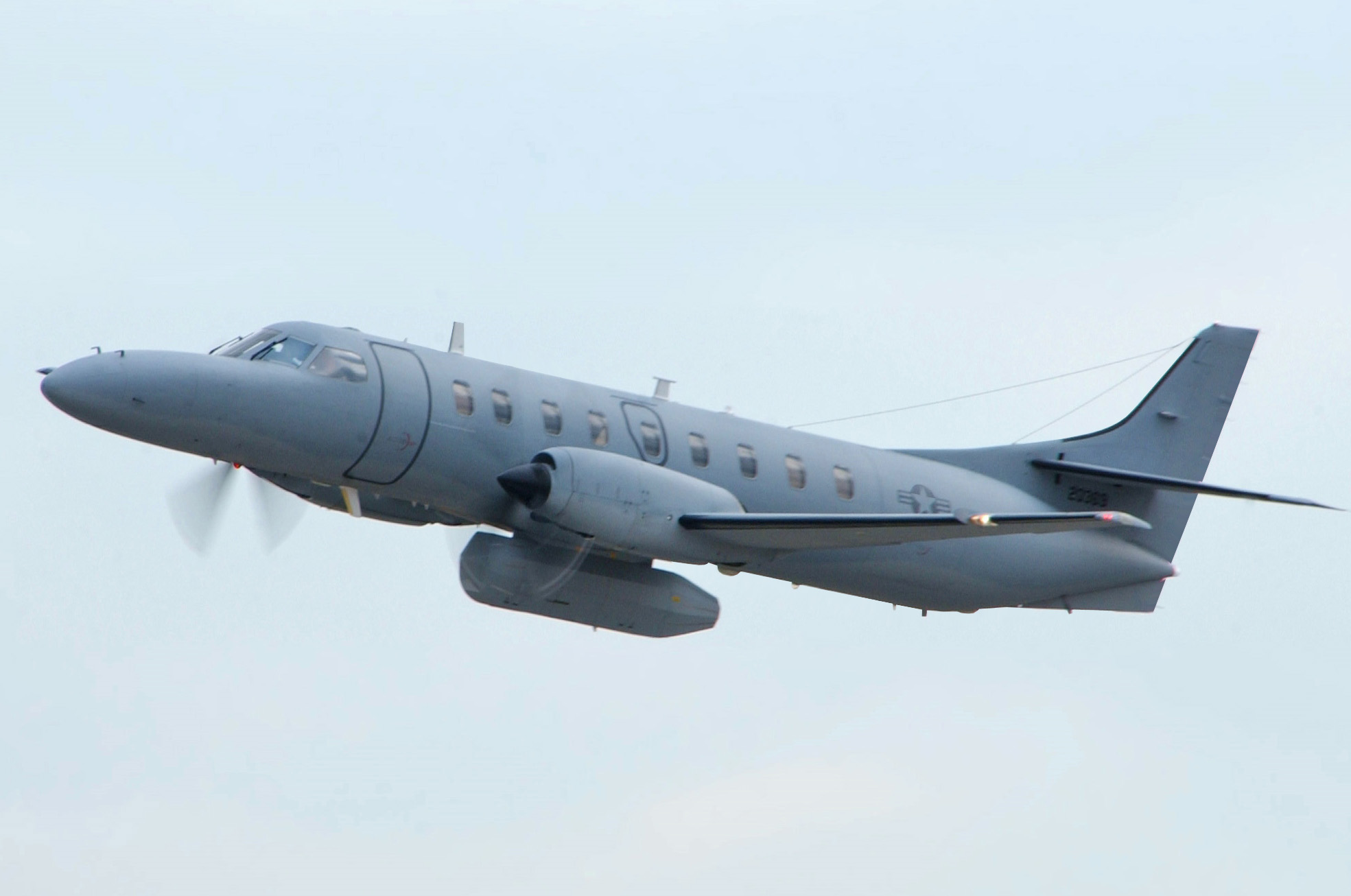 A Florida Air National Guard C-26B Metroliner aircraft takes off from the Jacksonville Air National Guard Base, Jacksonville International Airport, Fla., on Feb. 14, 2005.